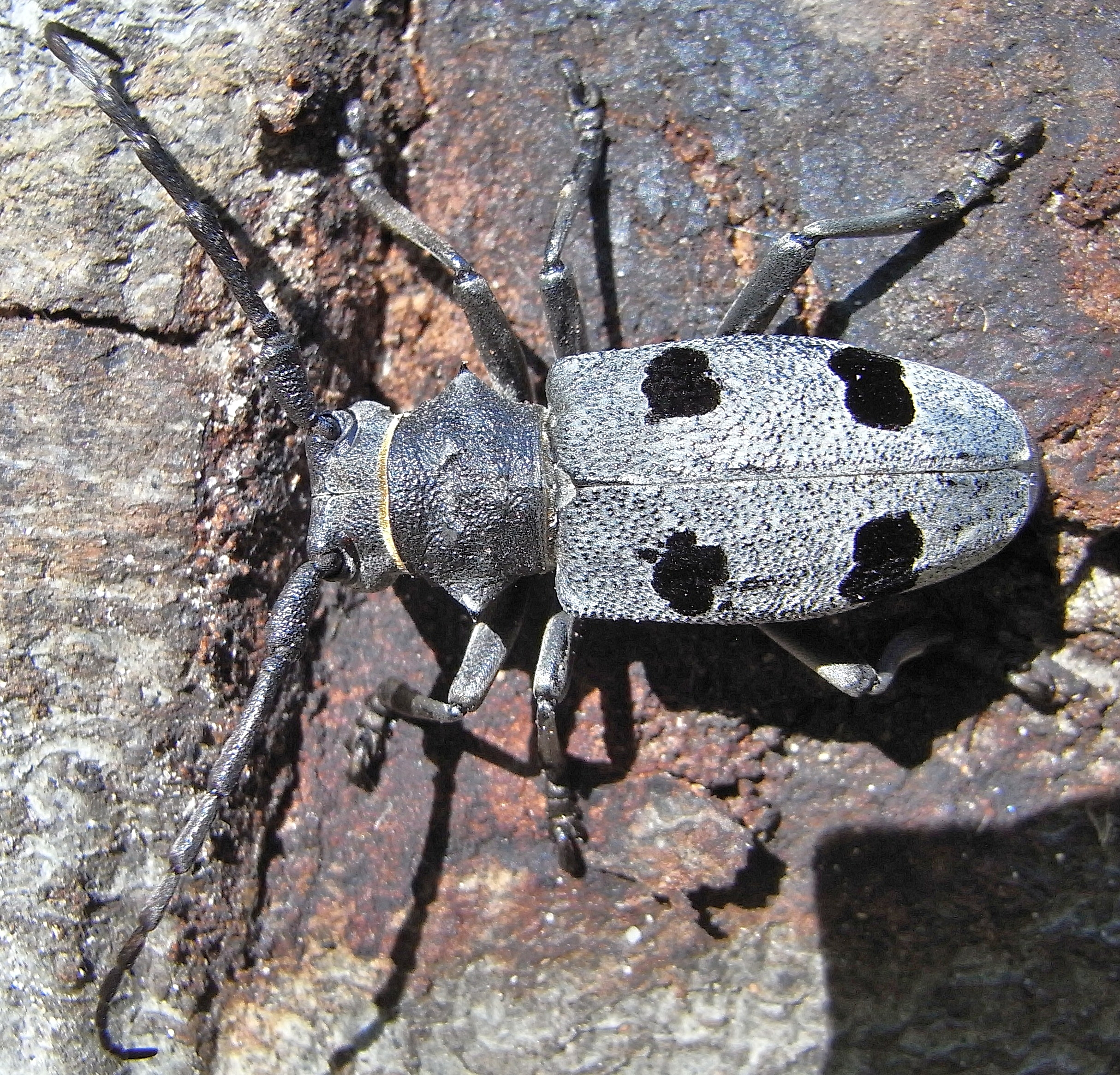 Morimus asper funereus from Vertes-mountains in Hungary at 2010-07-09Ricoh R8